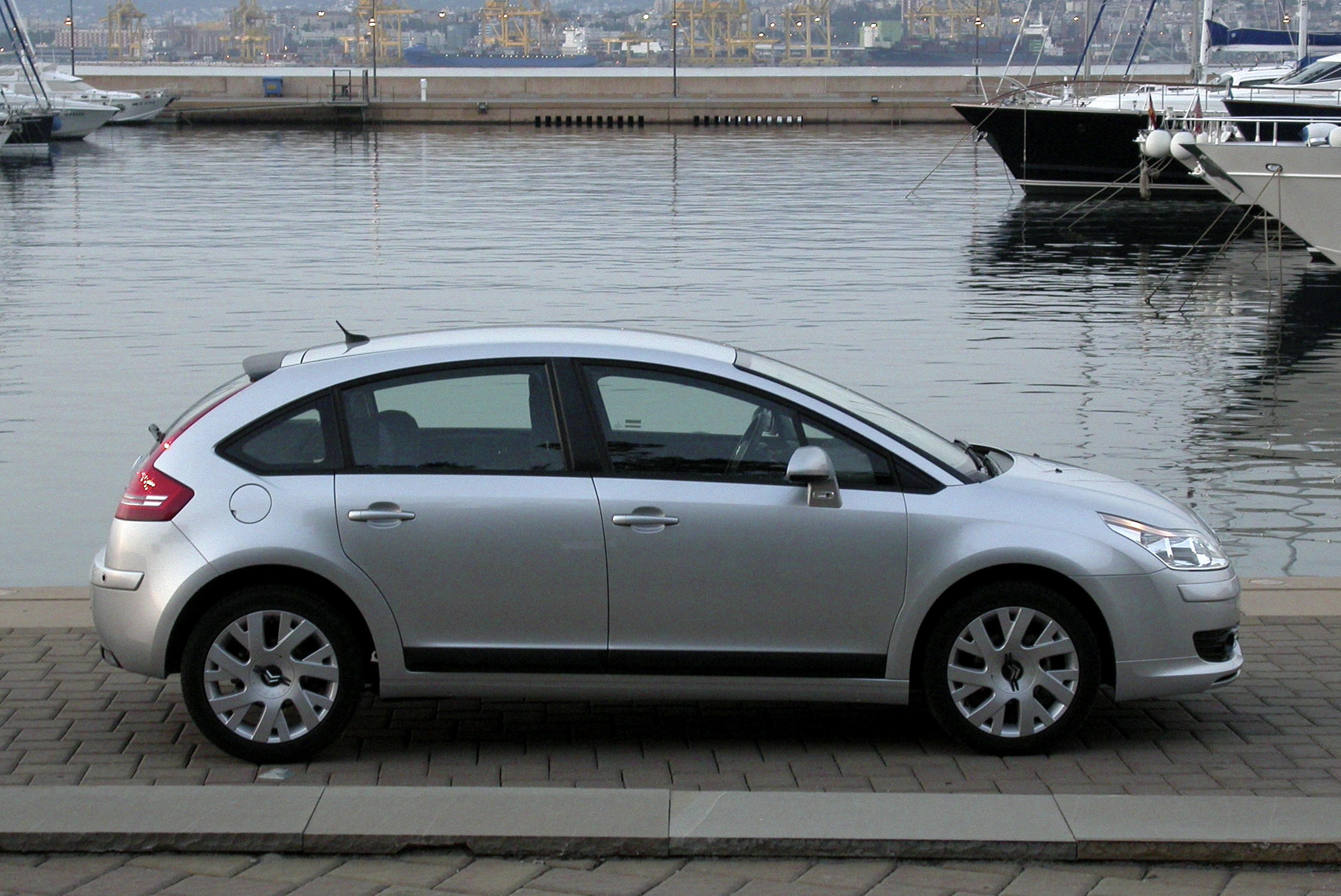 Citroën C4 Hatchback, side view